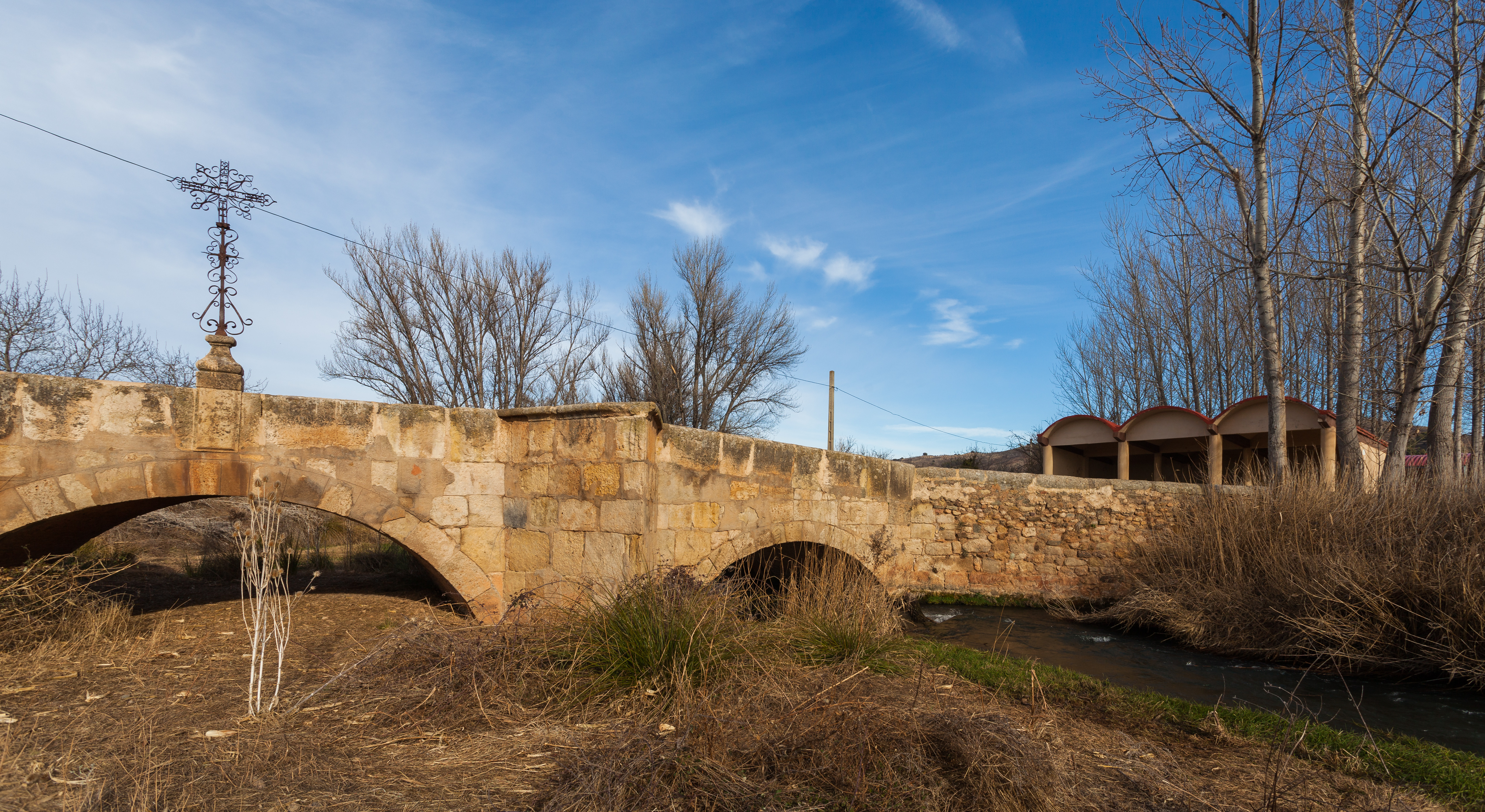 Báguena, Teruel, Spain